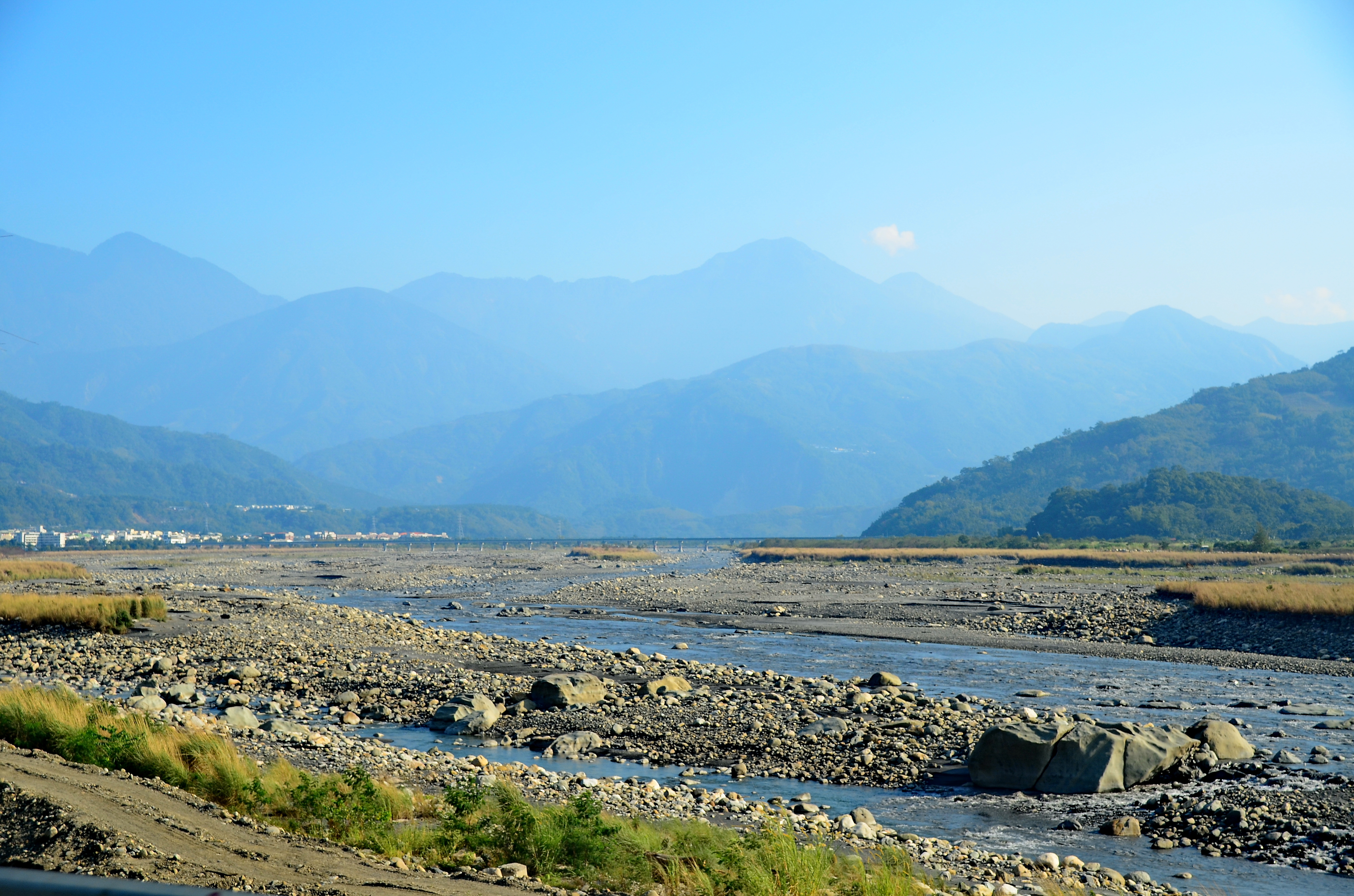 Zhuoshui River.The photo taken at Shueili Township, Nantou County, Taiwan.